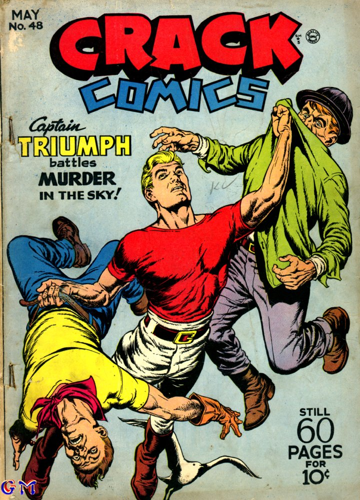 Cover to Crack Comics #48.